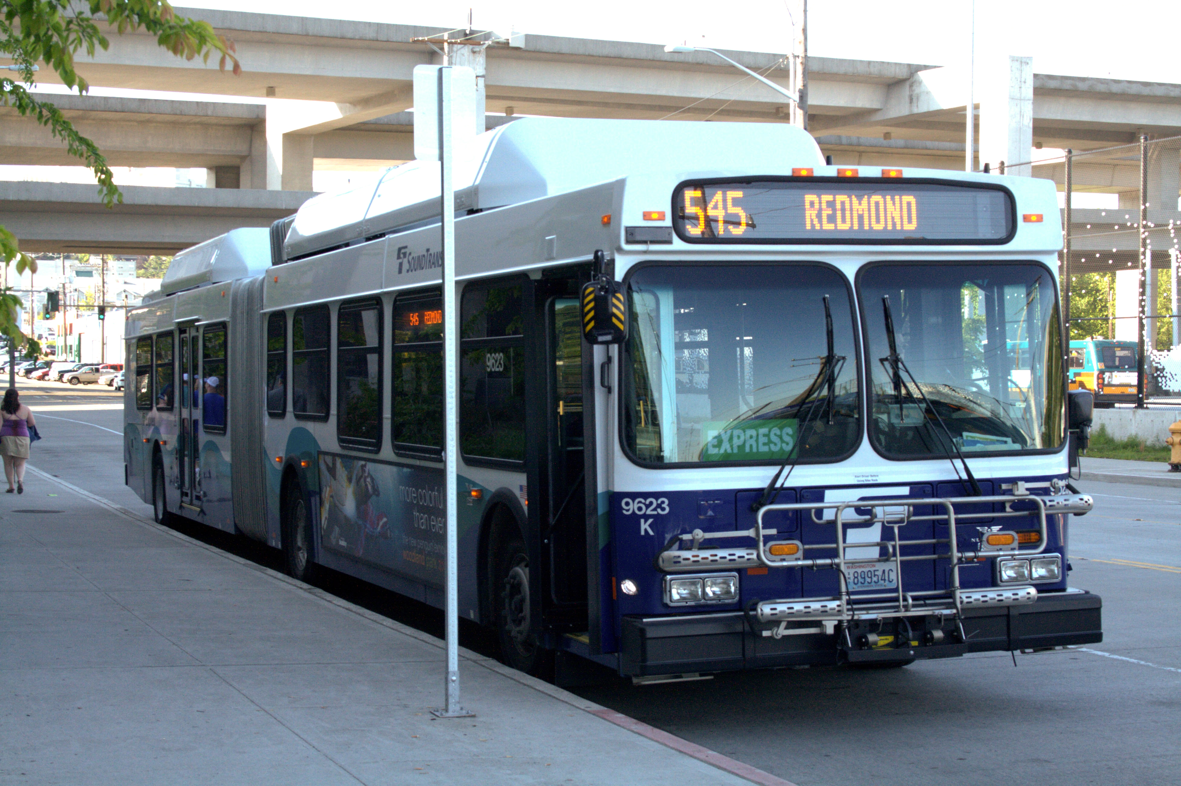 Sound Transit New Flyer DE60LF laying over between Metro's Ryerson and Atlantic bases.